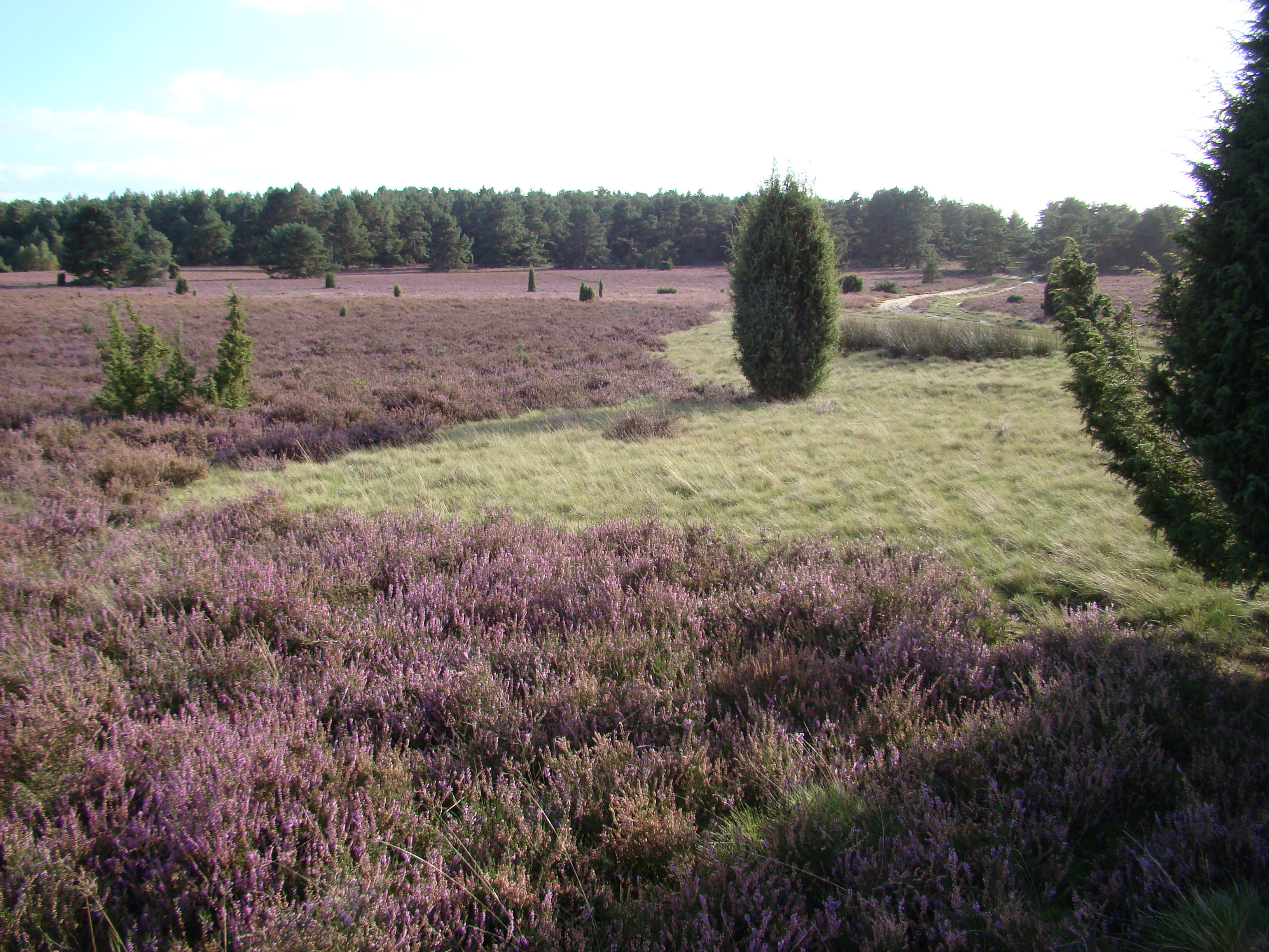 Heathland near the Haußelberg, Lüneburg Heath, Lower Saxony, Germany.